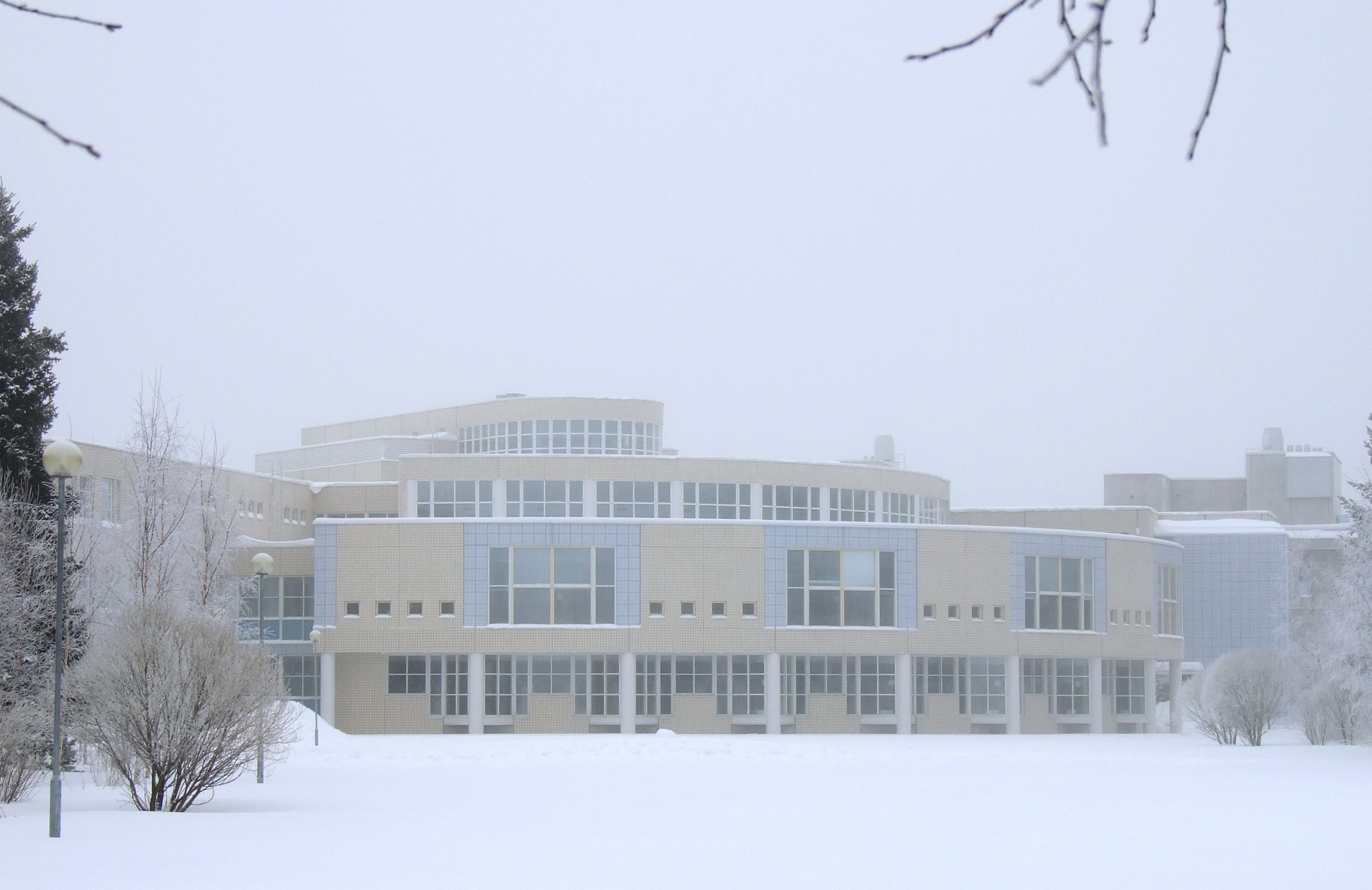 The Oulu University Main Library (nowadays Pegasus Library) in Linnanmaa, Oulu, Finland. The library building was designed by architect Kari Virta (built in 1987).